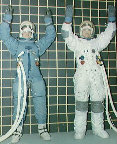 Two astronauts check mobility of two different types of Apollo space suits. Astronaut James B. Irwin (on left) wears the original Block II Apollo pressure suit which the Apollo 204 Review Board recommended be changed. Astronaut John S. Bull (on right) wears the new Apollo pressure suit which incorporates changes recommended by the board. The new suit worn by Bull has an outer layer of Beta Fabric, a non-flammable fibreglass cloth.